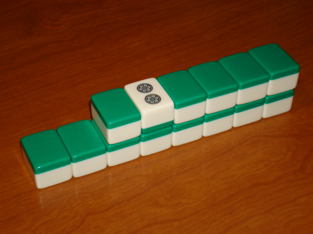 Dora and dead wall